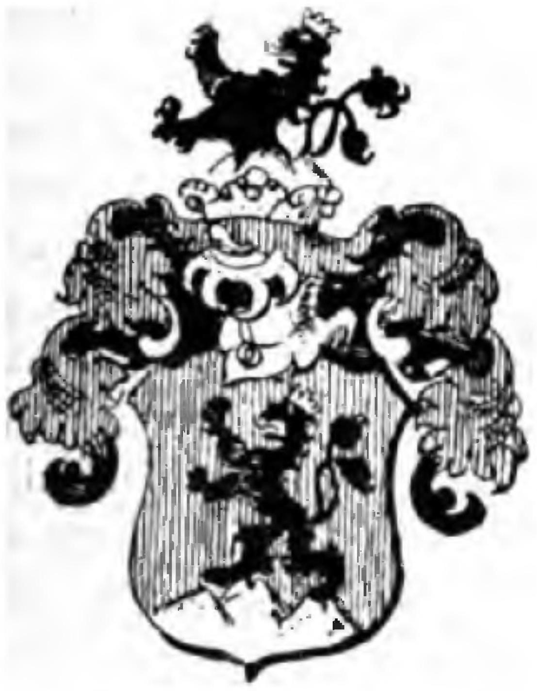 Pic. 42. Coat of arms of Žerotín House.